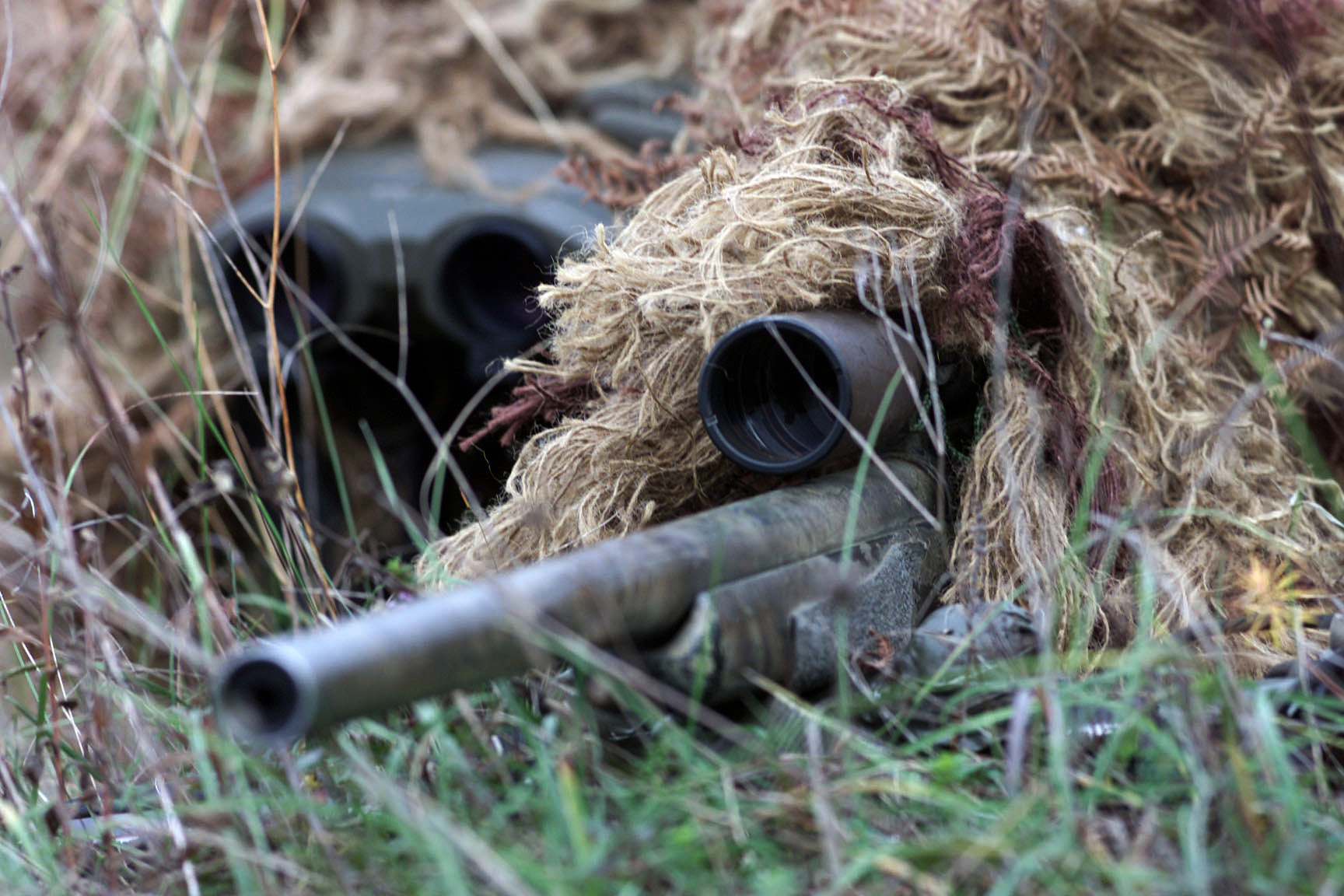 US Marine Corps (USMC) Sergeant (SGT) Michael Sistunk and Lance Corporal (LCPL) Matthew Bateman both part of the Reconnaissance Marines from the 26th Marine Expeditionary Unit (MEU) Special Operations Capable (SOC), practice stalking techniques with an M-40 Sniper Rifle during Exercise Slunj 2000. The bilateral exercise is designed to build interoperability and cooperation between the US and Croatian military forces.